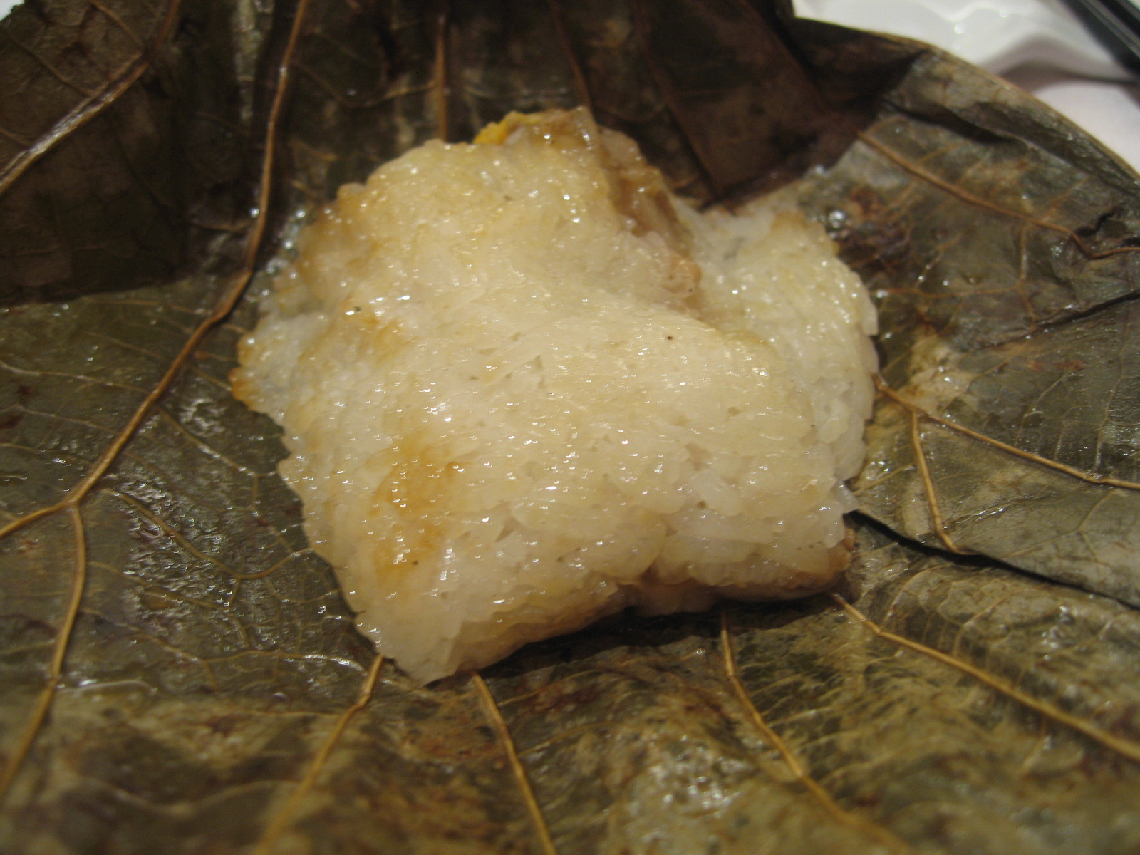 Lo mai gai.